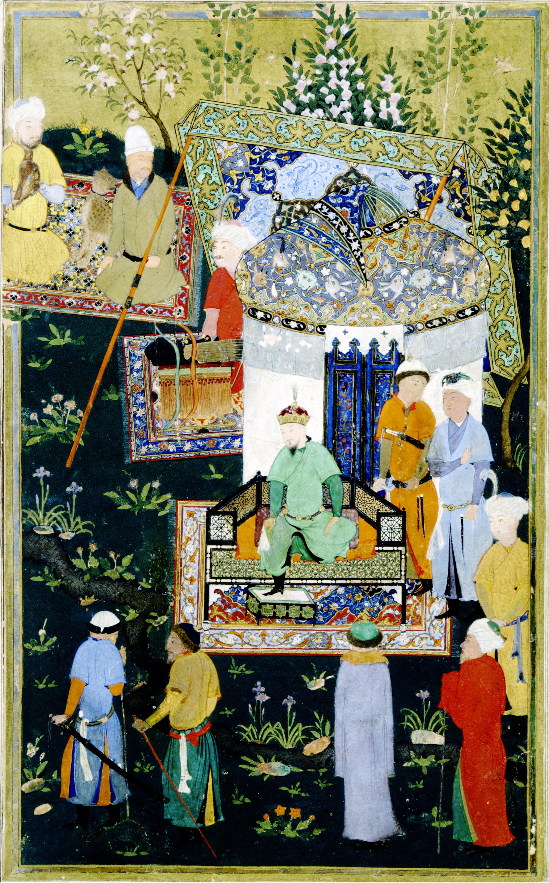 Zafarnama, or Book of Victory, ca 1467 from The John Work Garrett Library of The Johns Hopkins University.